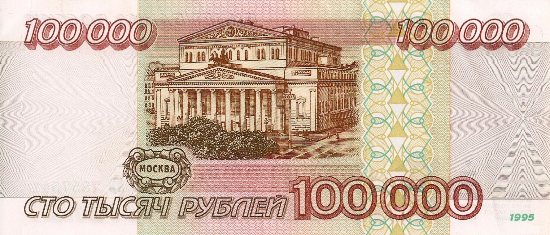 Russian banknote. 100 000 rubles. Version of 1995 year. Back